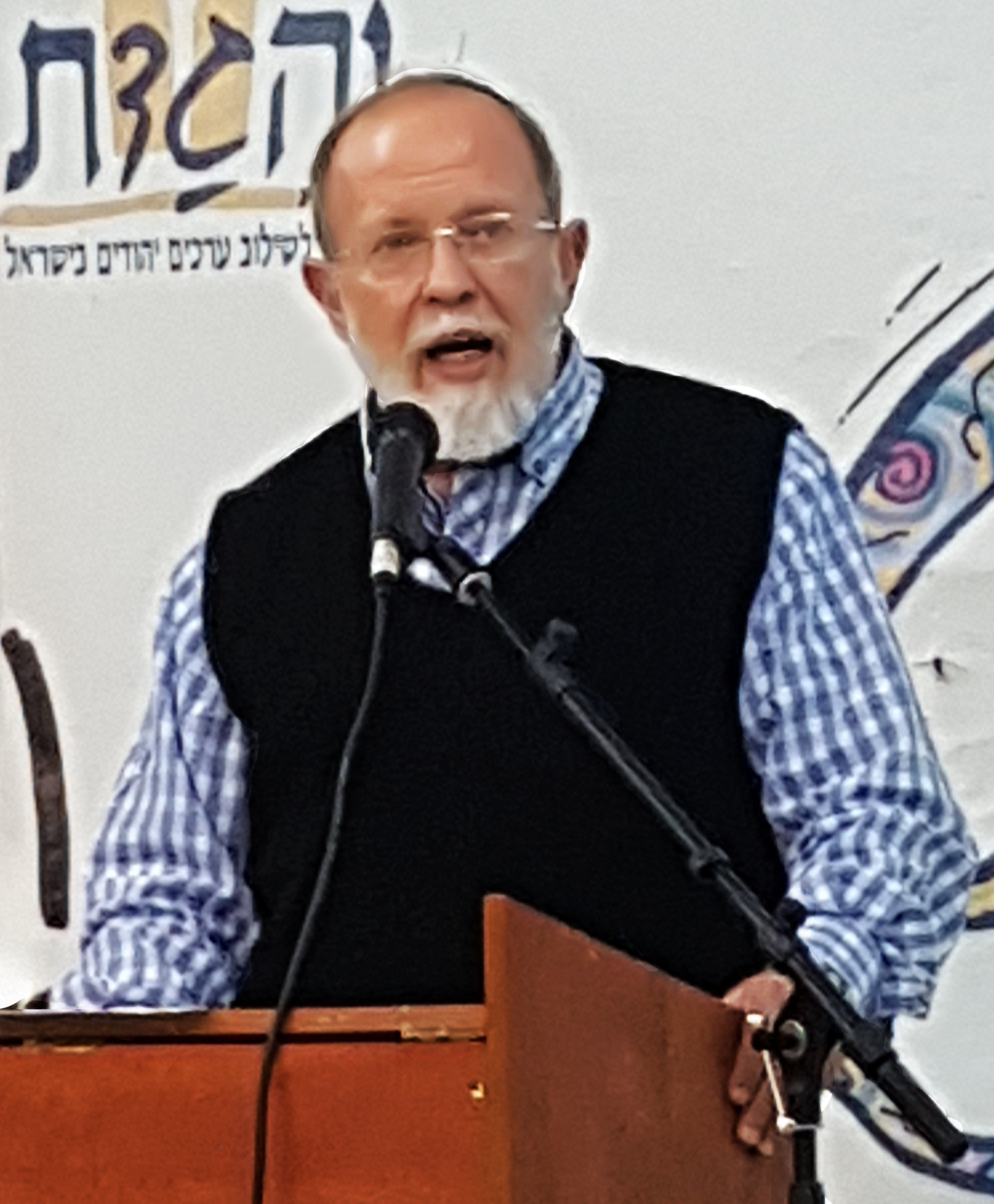 Eli Sadan